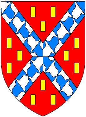 Arms of Champernowne: Gules, a saltire vair between twelve billets or